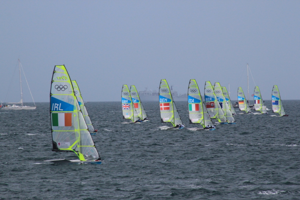 A heat in the men's 49er race at Weymouth during the 2012 Summer Olympics. Nearest the camera is the Irish boat, but out in front (as they were right through to the finish) are the New Zealanders.